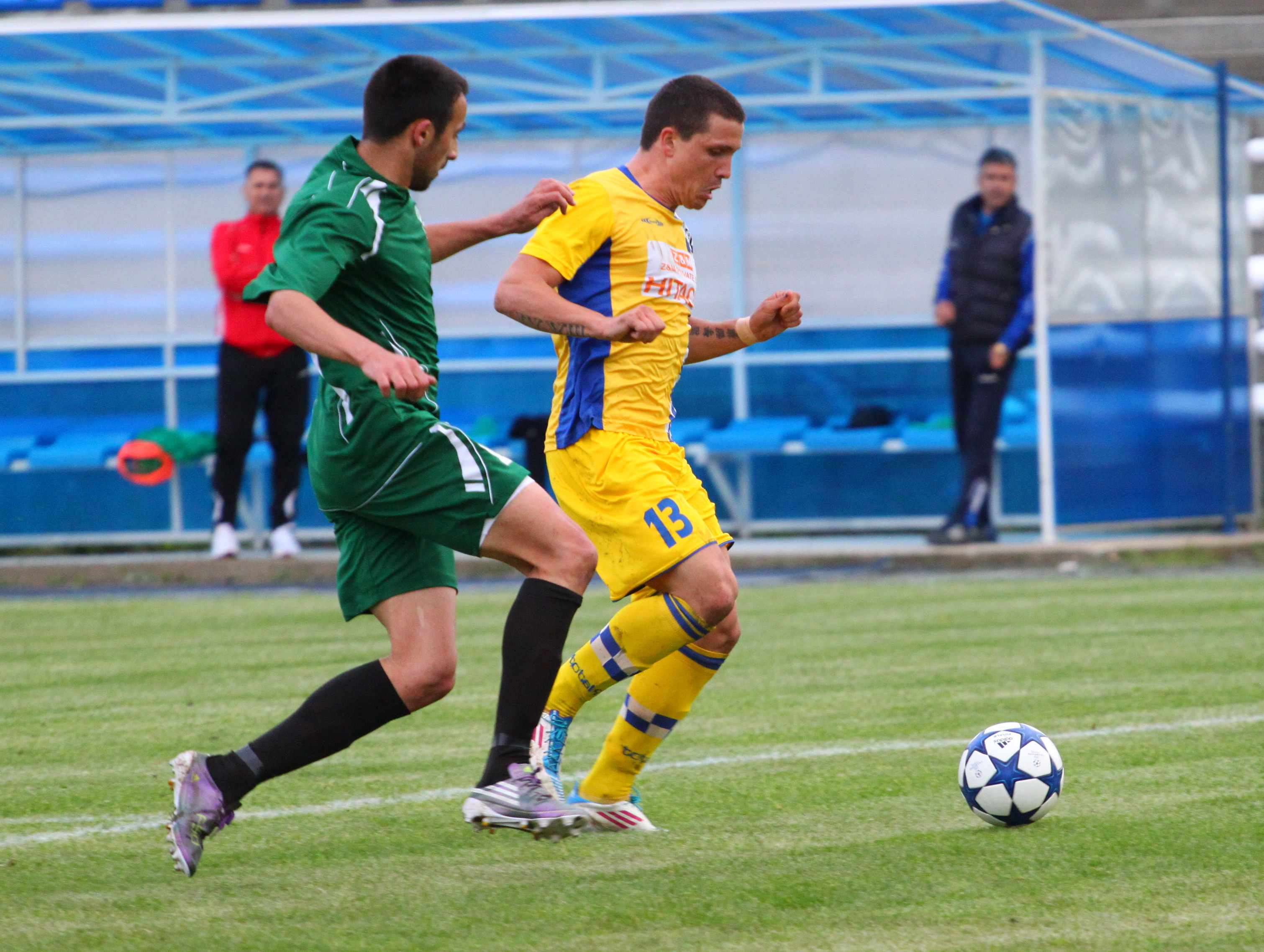 Ognian Stefanov - bulgarian soccer player, forward